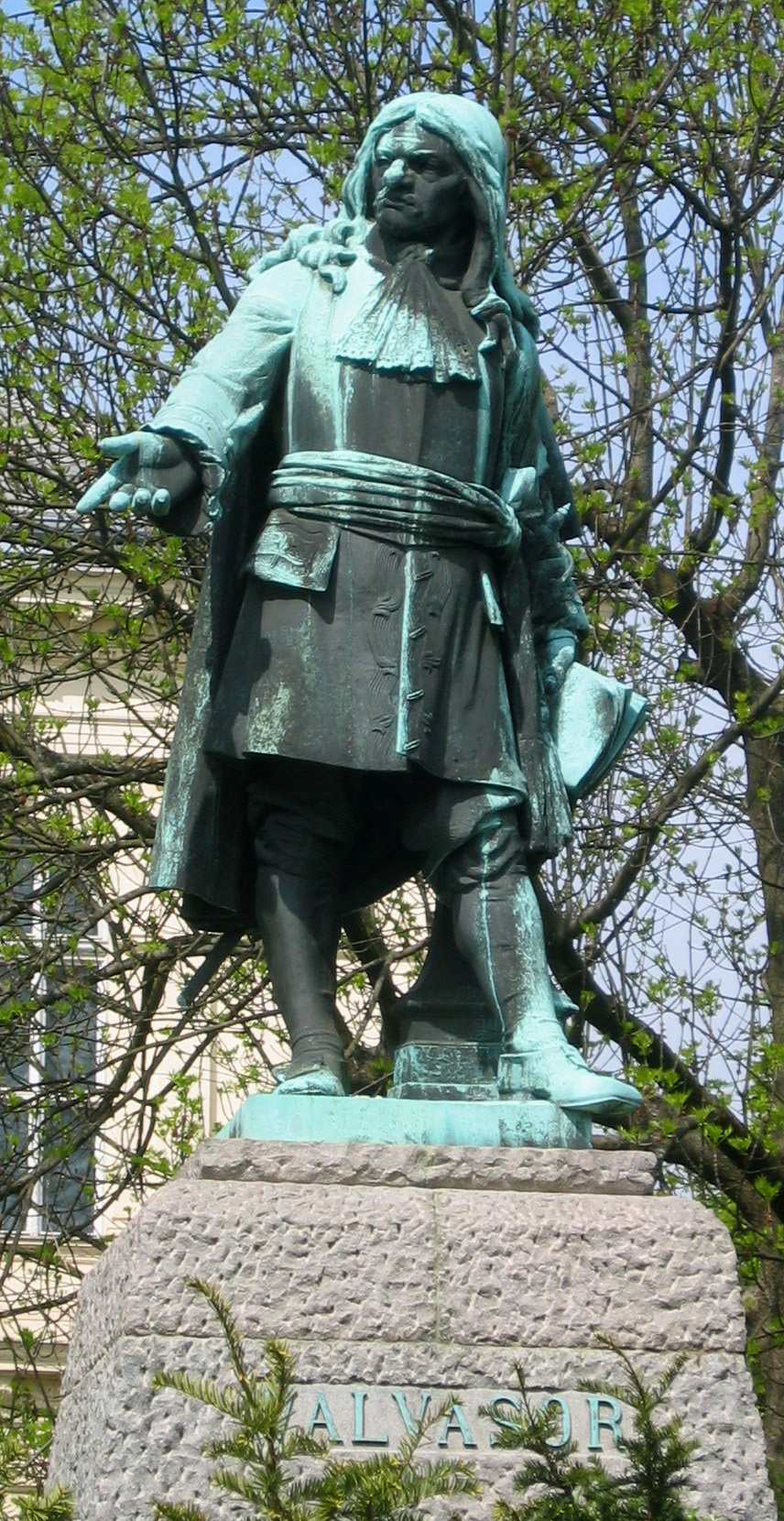 The polymath Johann Weikhard von Valvasor, as depicted in bronze by the sculptor Alojz Gangl. The pedestal is made of granite. The monument was unveiled in 1903 and stands in Valvasor Park in front of the National Museum of Slovenia.